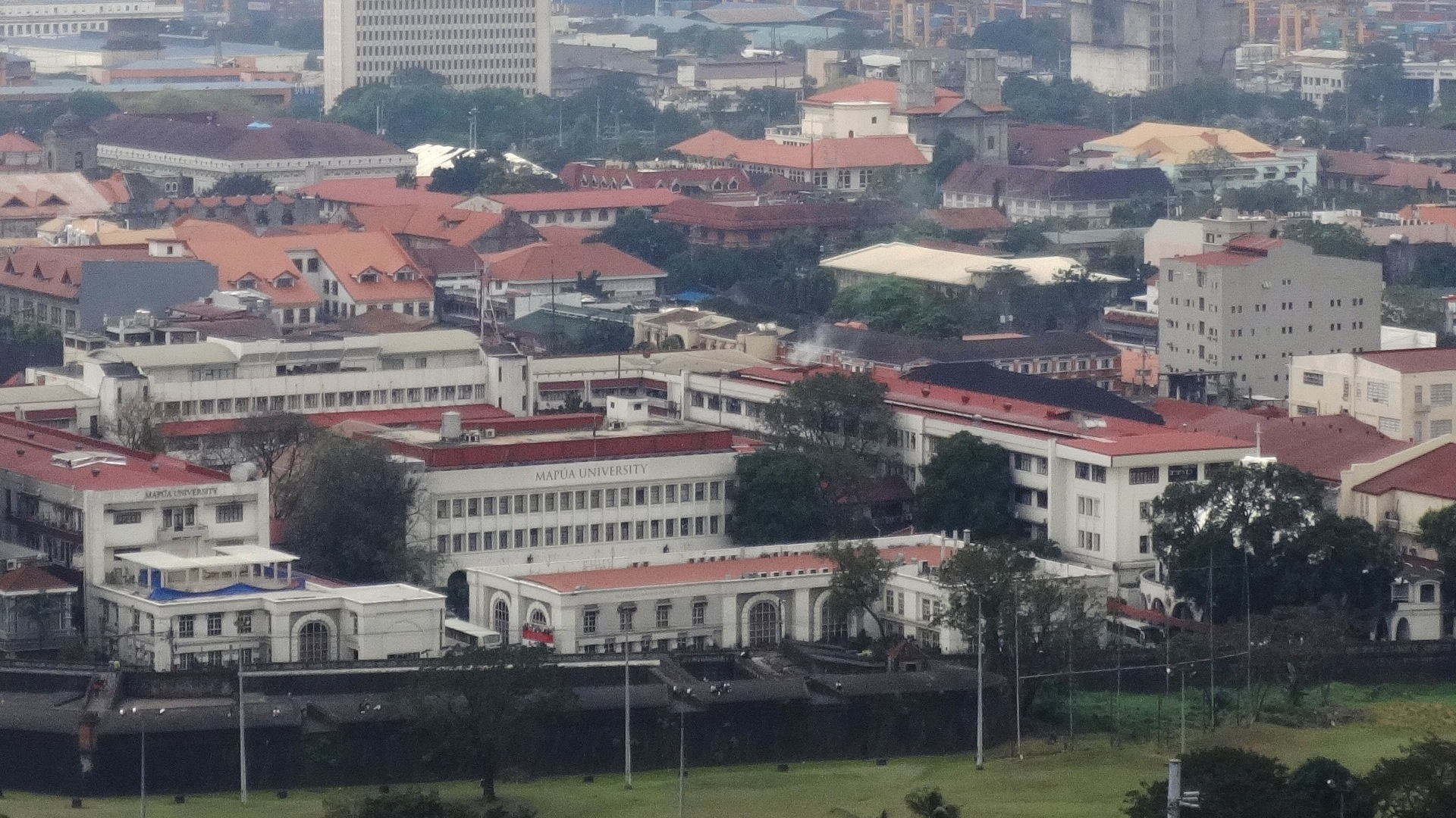 Mapua University campus in Intramuros, Manila